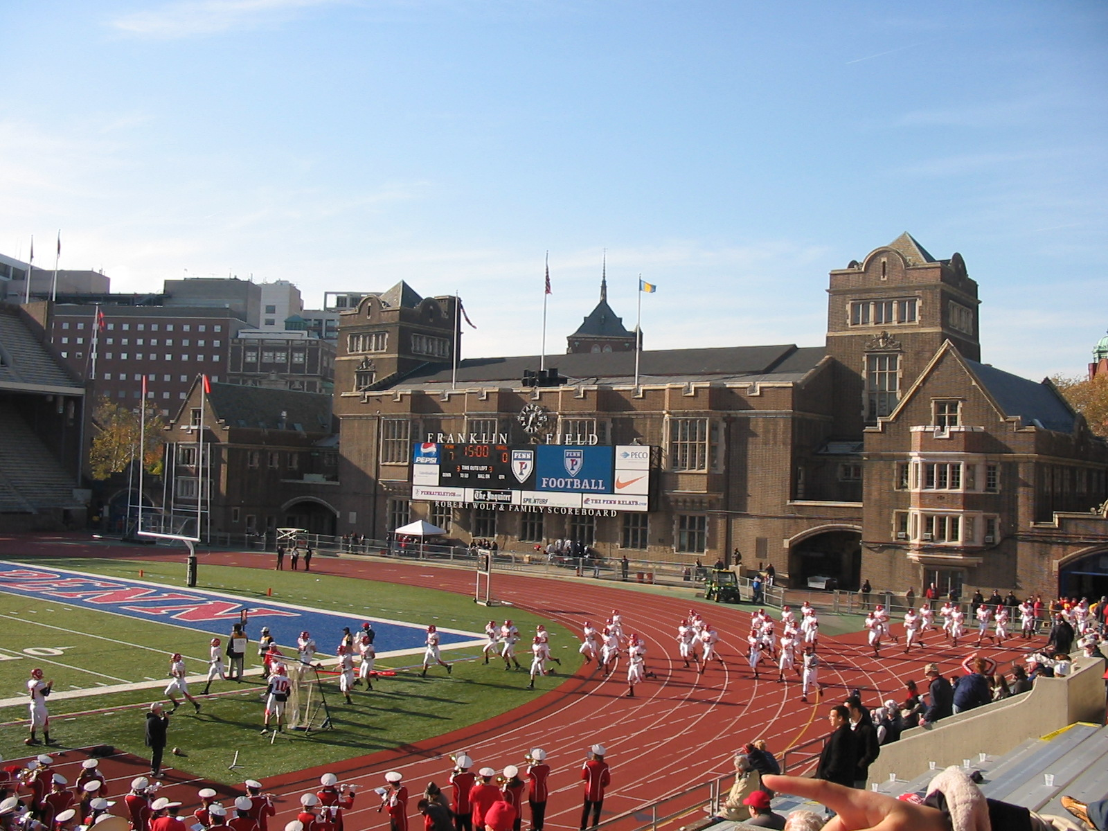 Cornell team comes on to Franklin Field at the University of Pennsylvania at the beginning of the 2nd half during Penn vs. Cornell football game, Nov. 19, 2005. Cornell won 16-7. As between Penn and Cornell, Penn holds a 64-42-5 advantage in the all-time series that dates back to 1893. The Penn v. Cornell rivalry is the fifth most played rivalry in NCAA Division I-AA history. Penn and Cornell have met 111 times since their first contest in 1893. The series has been played for 85 consecutive years, the third longest uninterrupted series in I-AA history. Penn has won 11 of the last 15 meetings between the two programs. Category:Images of Philadelphia, Pennsylvania Category:University of Pennsylvania